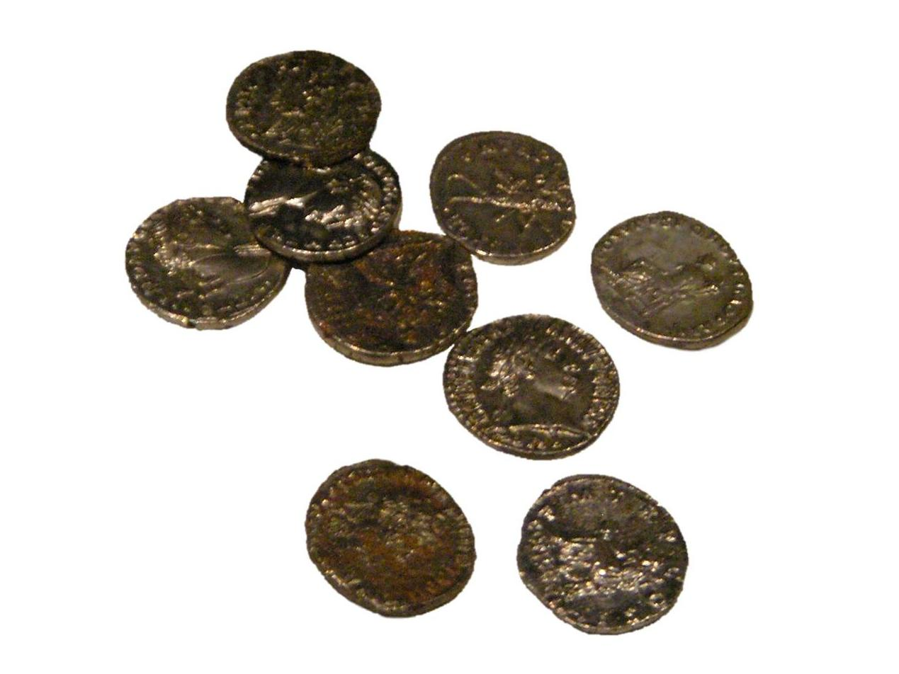 Roman coins from a treasure find, 157 B.C. to 138 A.D. The treasure contained 7 gold and 1436 silver coins. Its value was nearly equivalent to five annual salaries of a common soldier.